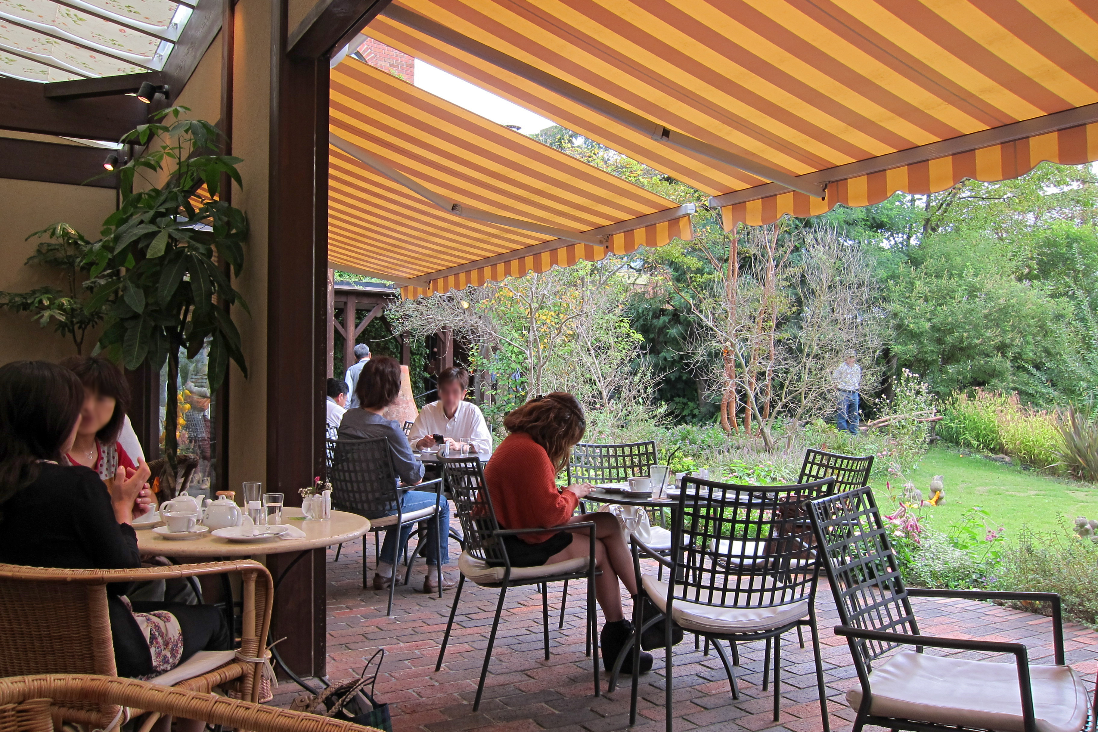 CLUB HARIE (クラブハリエ), Omihachiman, Shiga prefecture, Japan